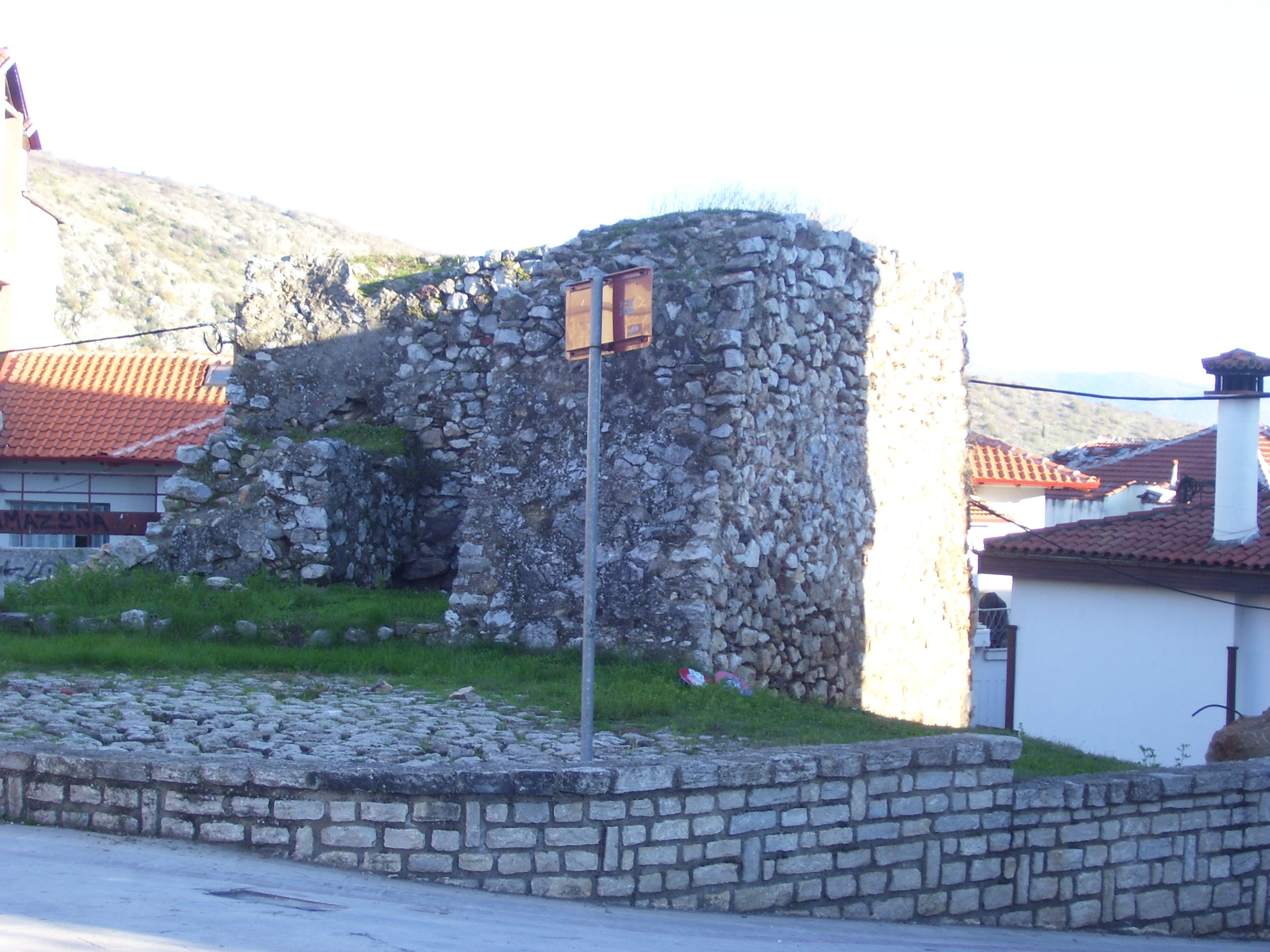 Kastoria Acropolis